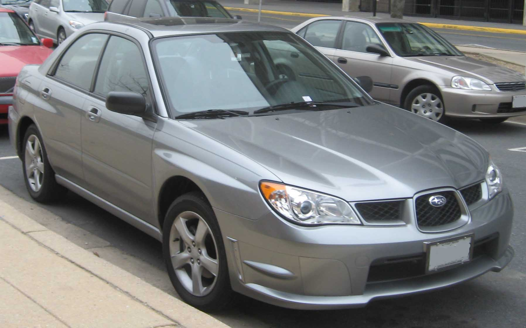 2006-2007 Subaru Impreza photographed in College Park, Maryland, USA.